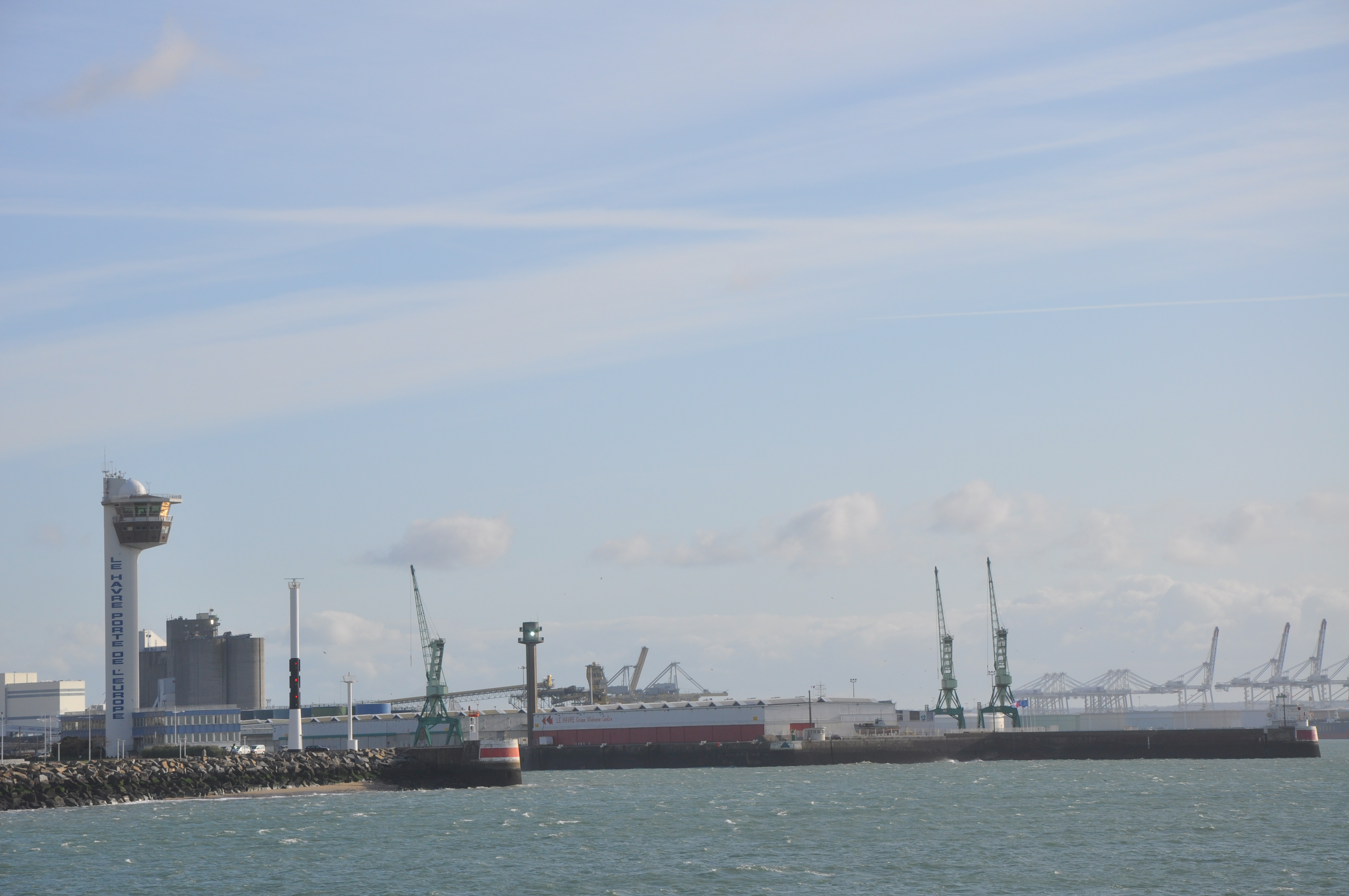 Le Havre (France): harbor